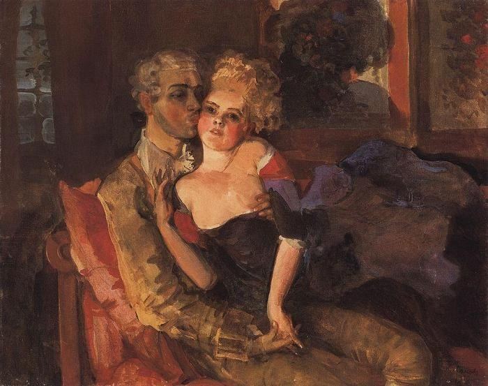 the National Gallery in Erevan